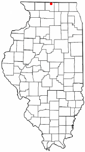 Category:Illinois city locator maps